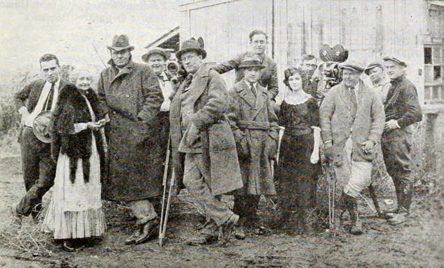 Cast and crew for the American film Human Hearts (1922) with King Baggot, House Peters, Gertrude Claire, Mary Philbin, and others, on page 23 of the August 26, 1922 Universal Weekly.